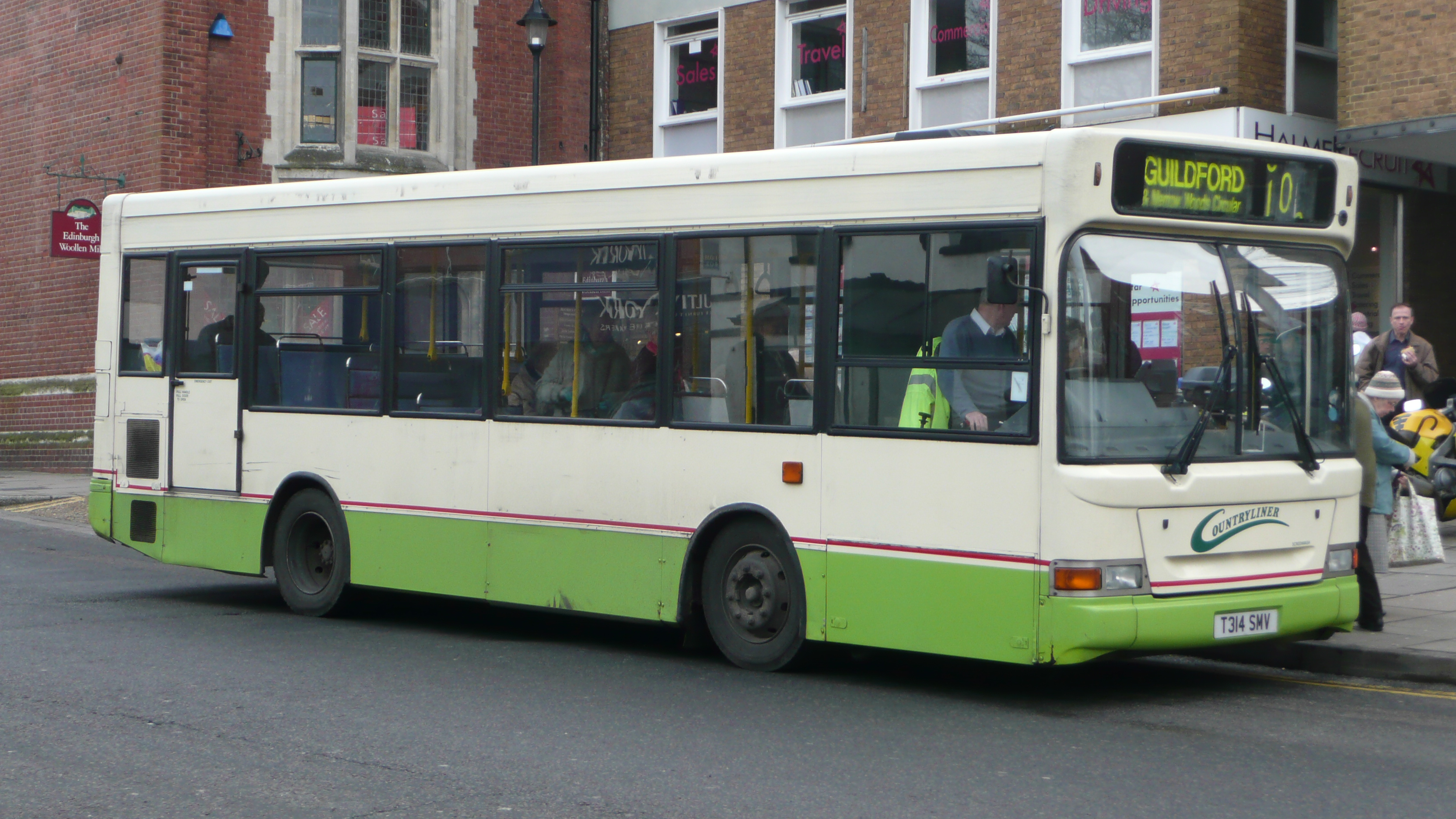 Countryliner's DP36 (T314 SMV), a Dennis Dart/Plaxton Pointer, in Guildford on route 10. The bus is ex-Metrobus, and still carries a blue roof from its previous owner.